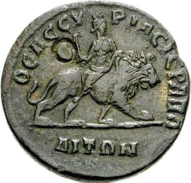 SYRIA, Cyrrhestica. Hierapolis. Philip I. 244-249 AD. Æ 29mm (15.97 g, 6h). Laureate, draped, and cuirassed bust right, seen from behind / Atargatis, head right and holding sceptre, leaning left on back of lion advancing right; c/m: ON (?) within circular incuse. For coin type: Butcher 64a; SNG Copenhagen 63; for c/m: cf. Howgego 681. VF, green patina, lightly smoothed.